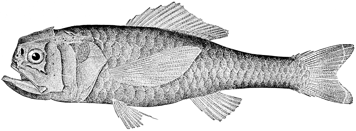 Melamphaes suborbitalis, a species of ridgehead or bigscale fish (family Melamphaidae).Government Printing Office.